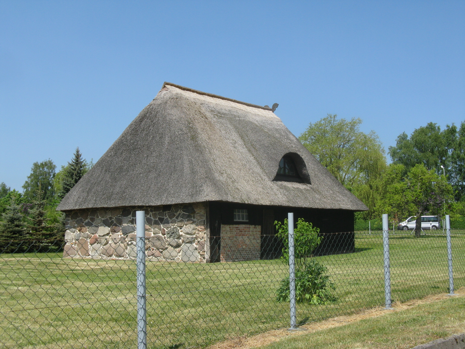 Fieldstone barn in Toddin, district Ludwigslust-Parchim, Mecklenburg-Vorpommern, Germany